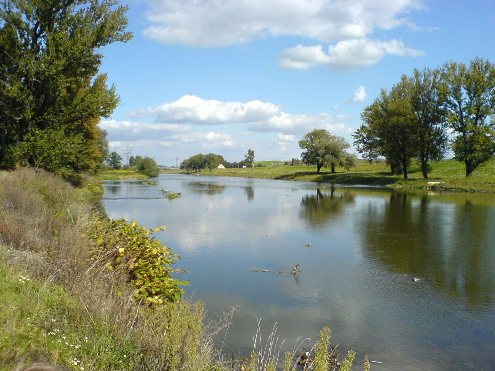 Odra at Ostrava-Koblov.